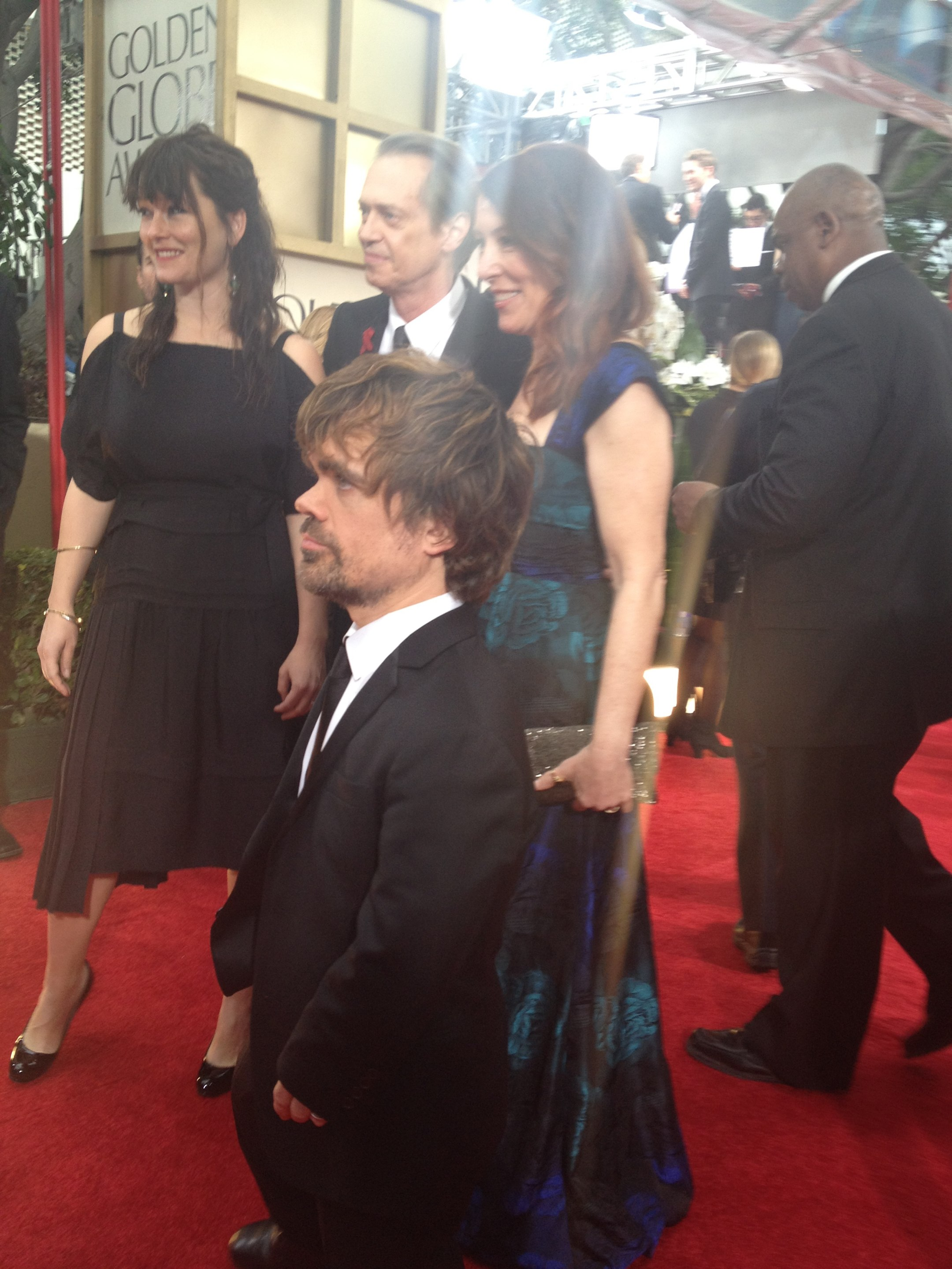 69th Annual Golden Globes Awards.